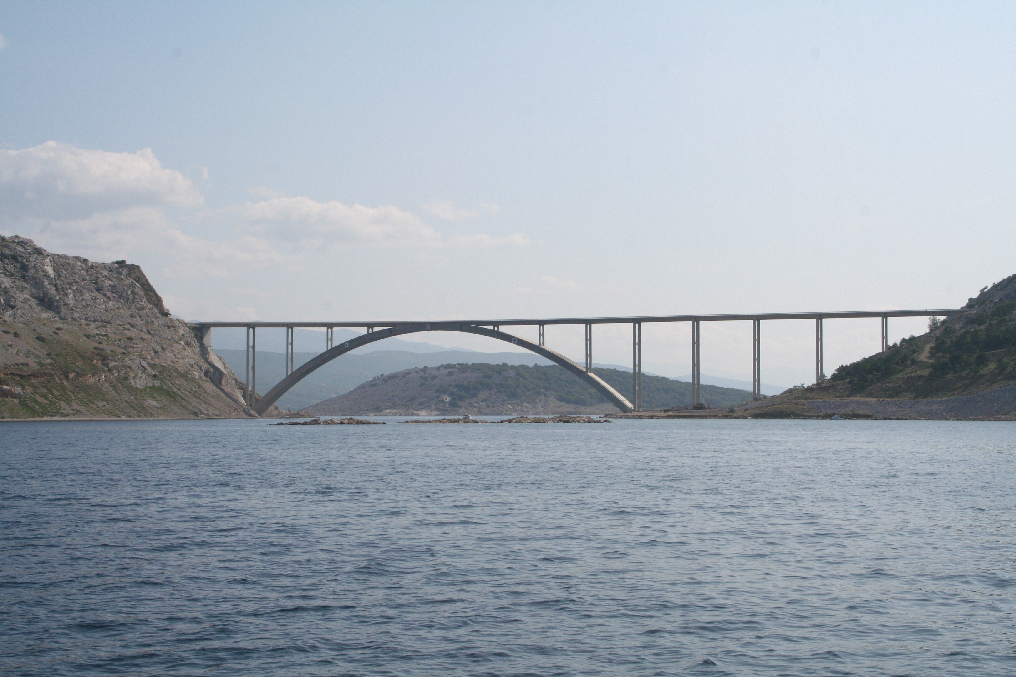 Krk bridge, Croatia